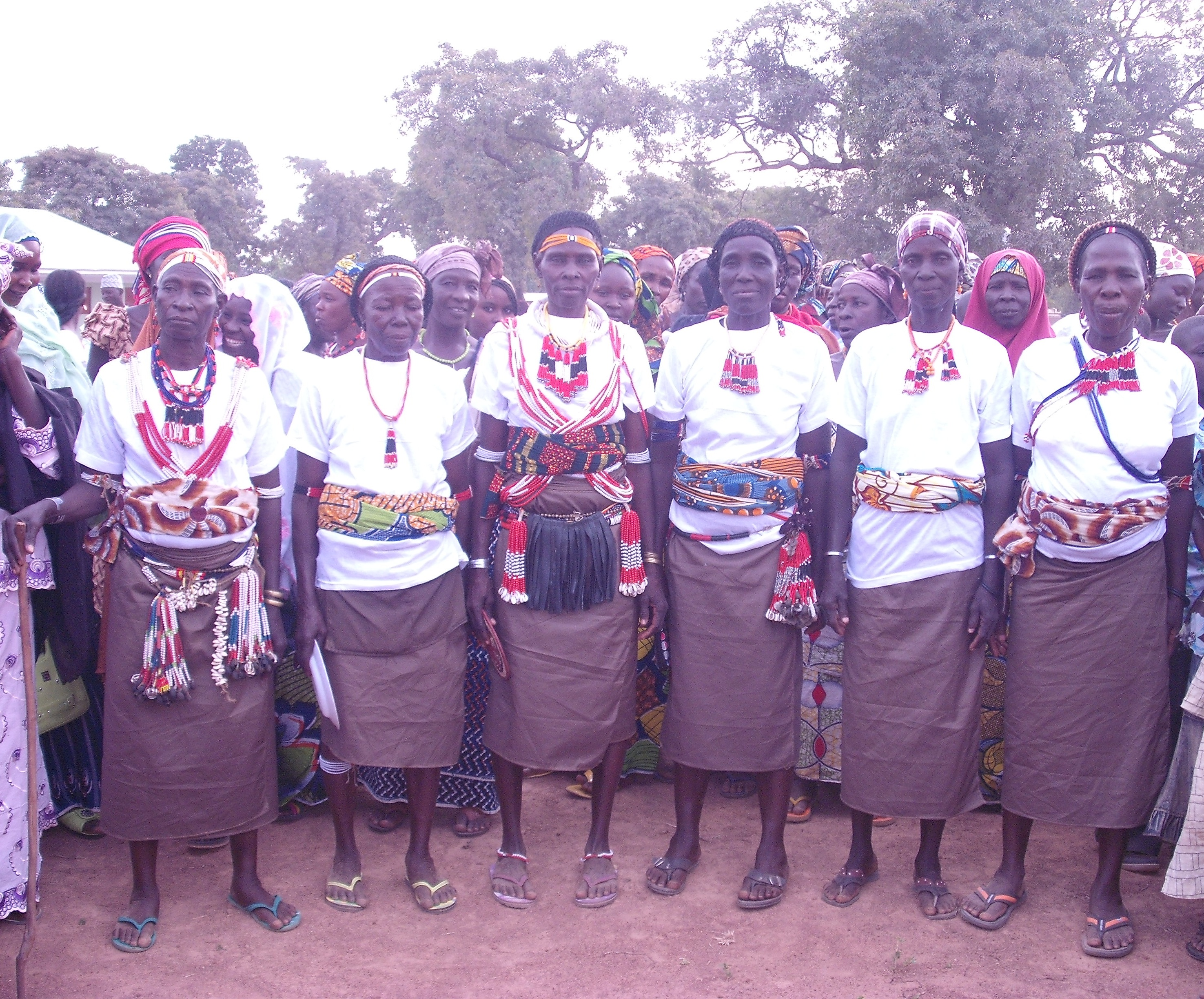 A cross section of Wamdeo Dances